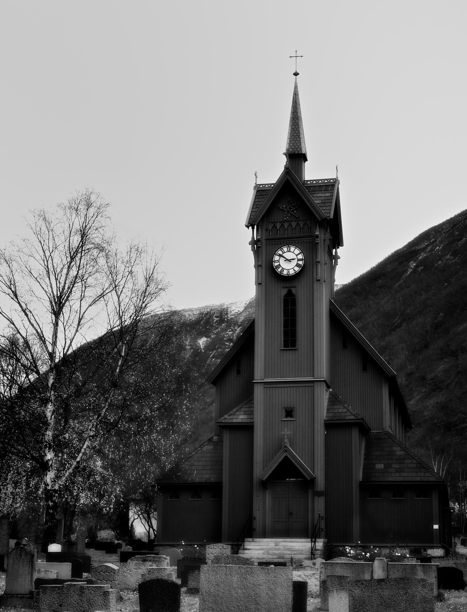 Årdal Church, Årdalstangen, municipality of Årdal, Sogn og Fjordane county, Norway